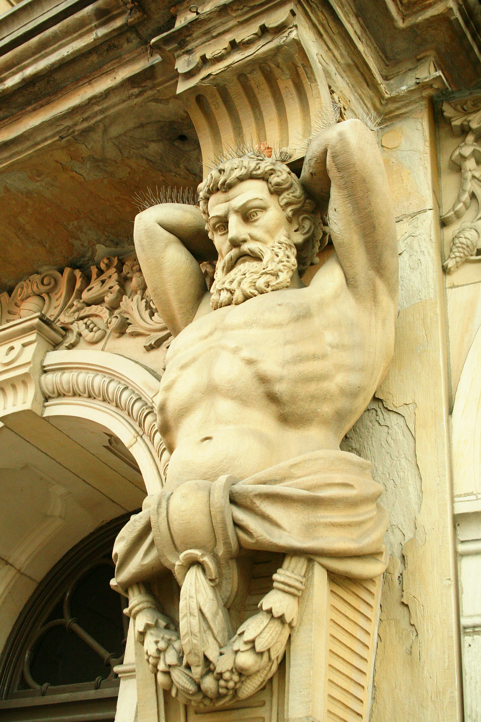 Telamon on the Wayne County, Ohio courthouse in Wooster. Photo shot by Derek Jensen (Tysto), 2006-02-15